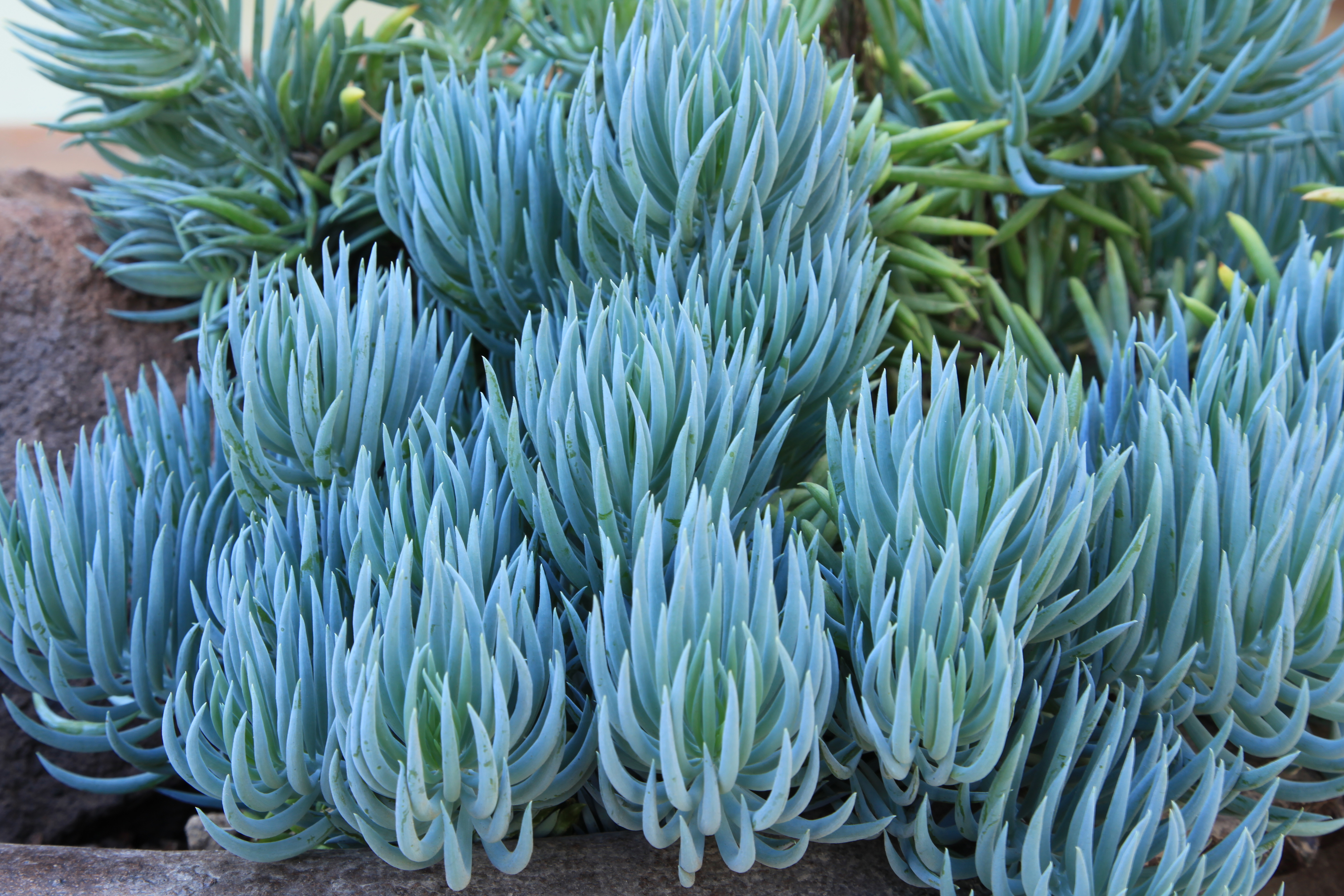 Senecio mandraliscae grown at Hotel Barceló Jandía Mar, Calle Sancho Panza in Morro Jable, Pájara, Fuerteventura, Canary Islands